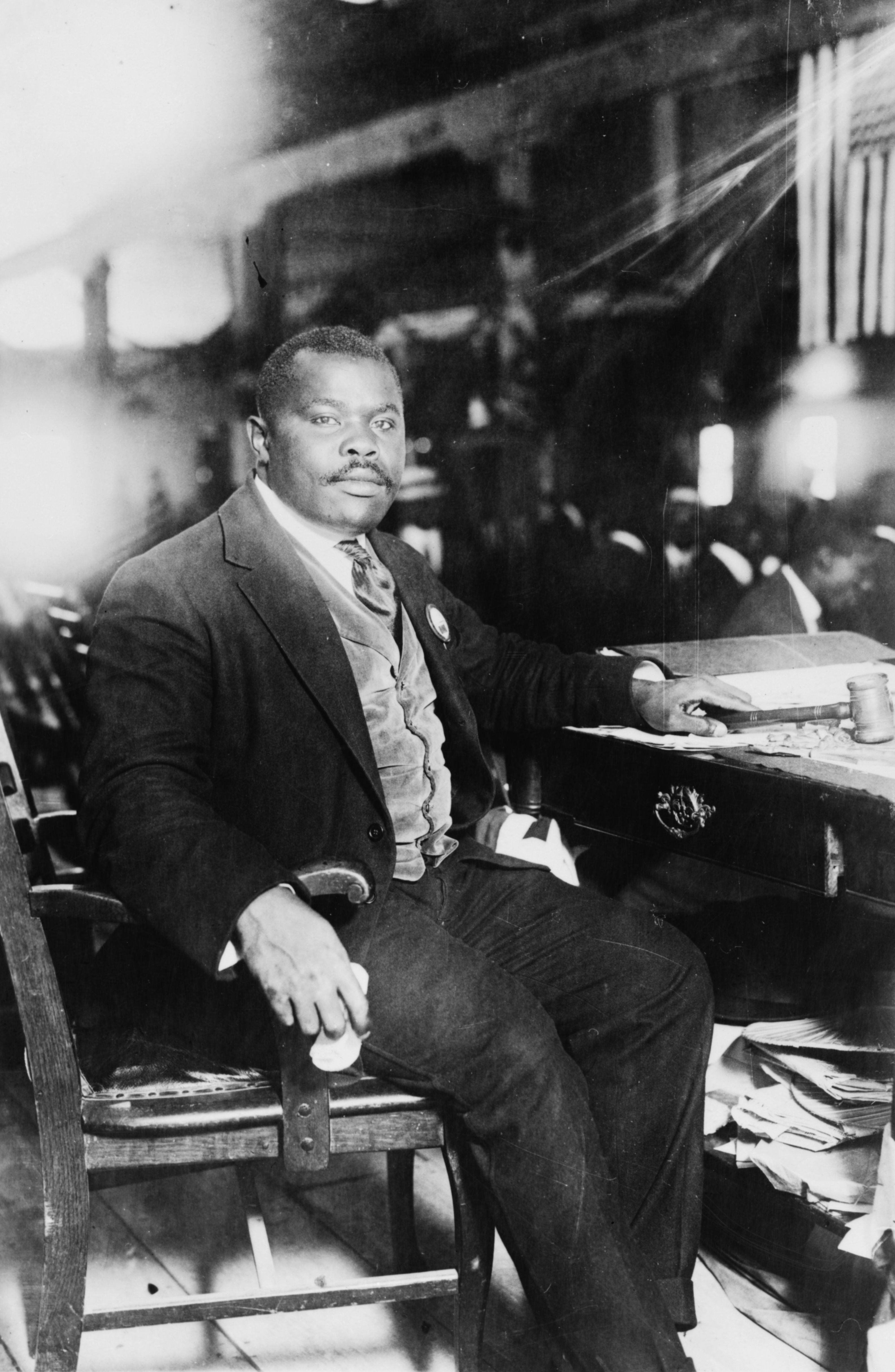 Marcus Garvey, National Hero of Jamaica, full-length, seated at desk